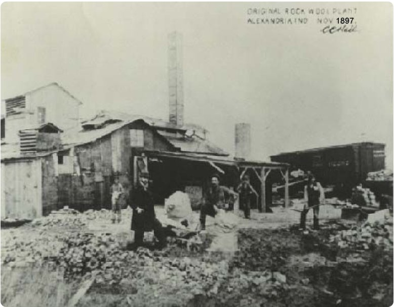 Original 1897 rock wool plant in Alexandria, Indiana Photo signed by C.C.Hall